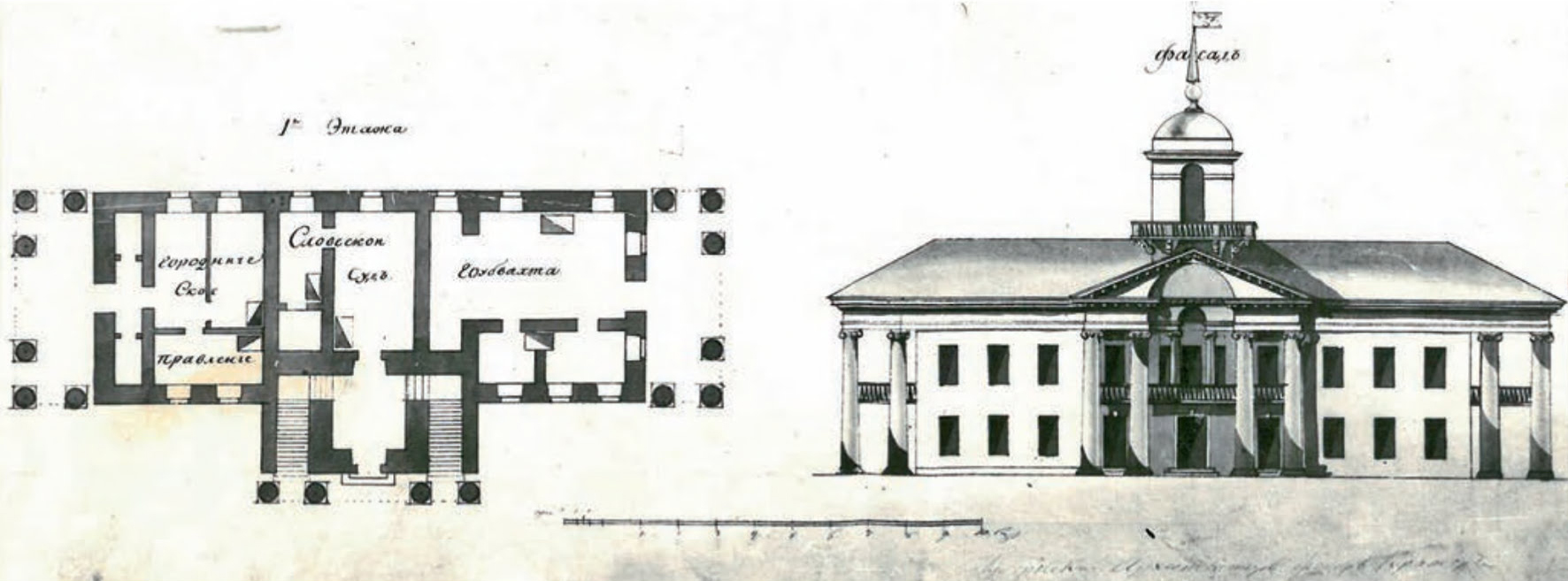 Drawing of Miensk City Hall